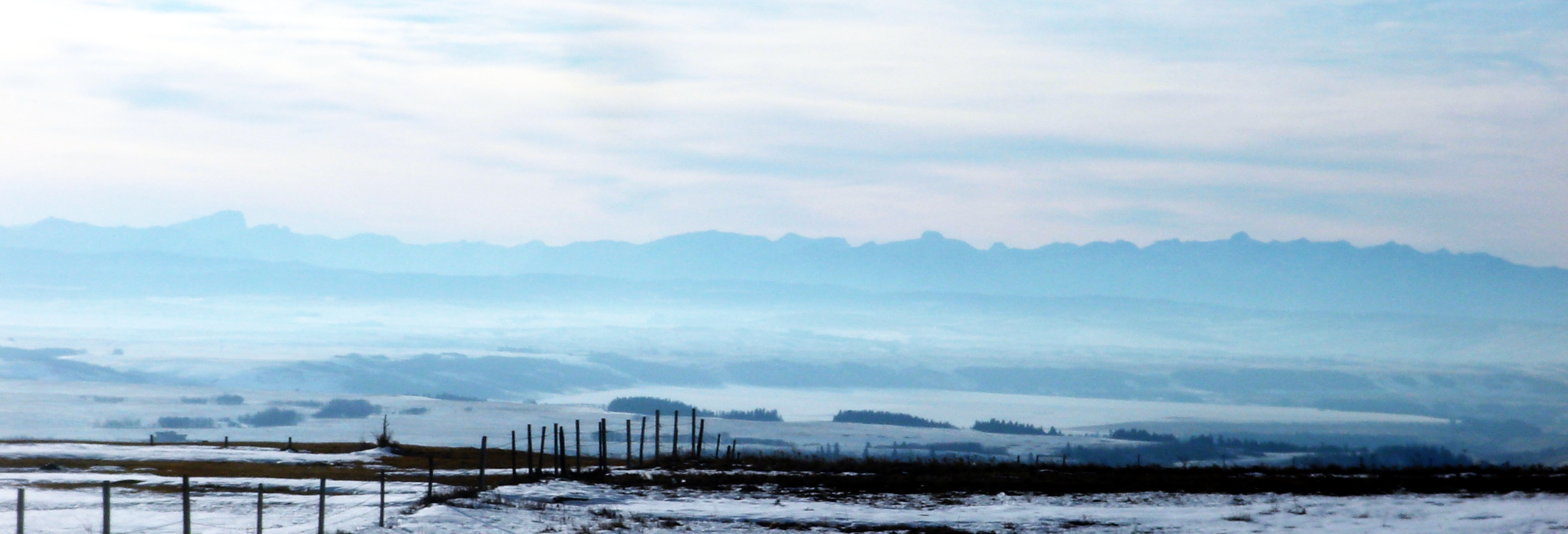 Foothils and Rocky Mountains, view from Bearspaw, west of Calgary, Alberta, Canada